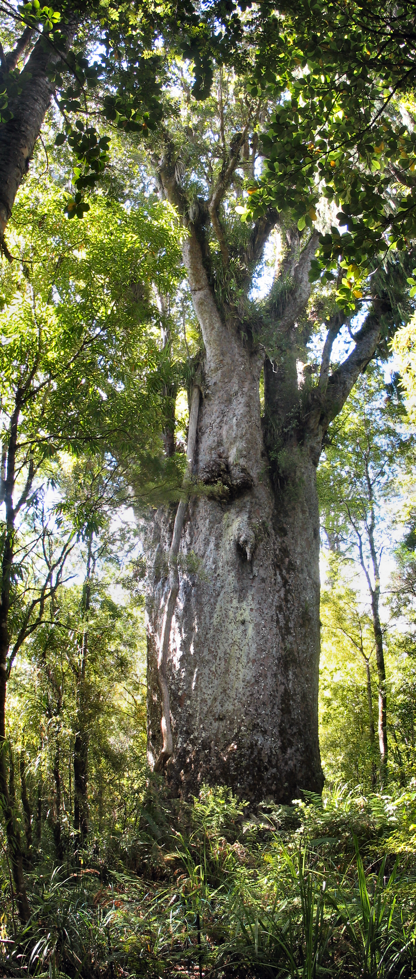 Te Matua Ngahere, "Father of the Forest", a Kauri, second largest tree in New Zealand. Waipoua Forest, Northland, New Zealand.